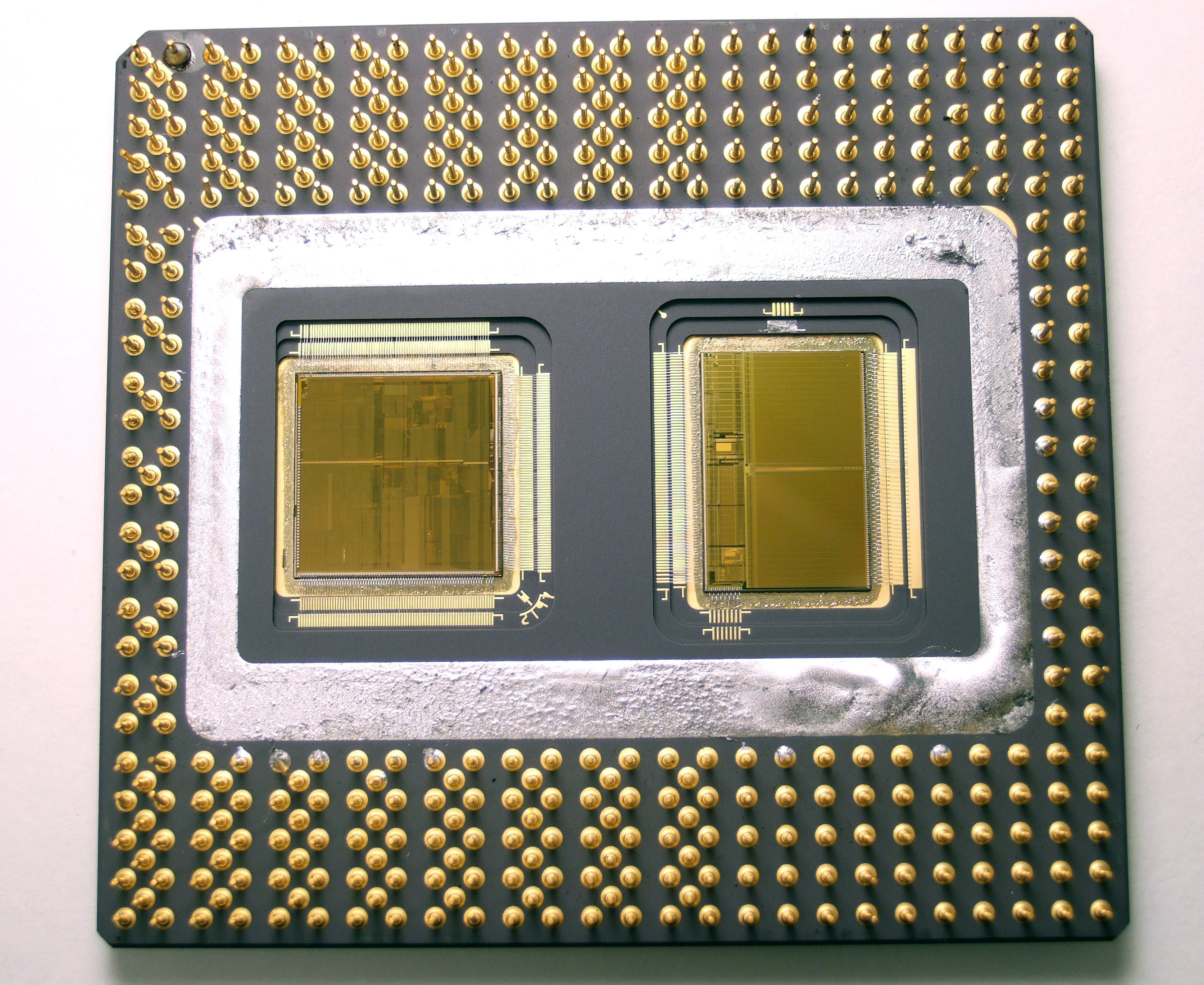 The bottom of a Pentium Pro. This particular chip is 200MHz, with 256KB of L2 cache. It was decapped with a Metcal Array Package Rework System. The processor die is on the left and the L2 cache on the right.